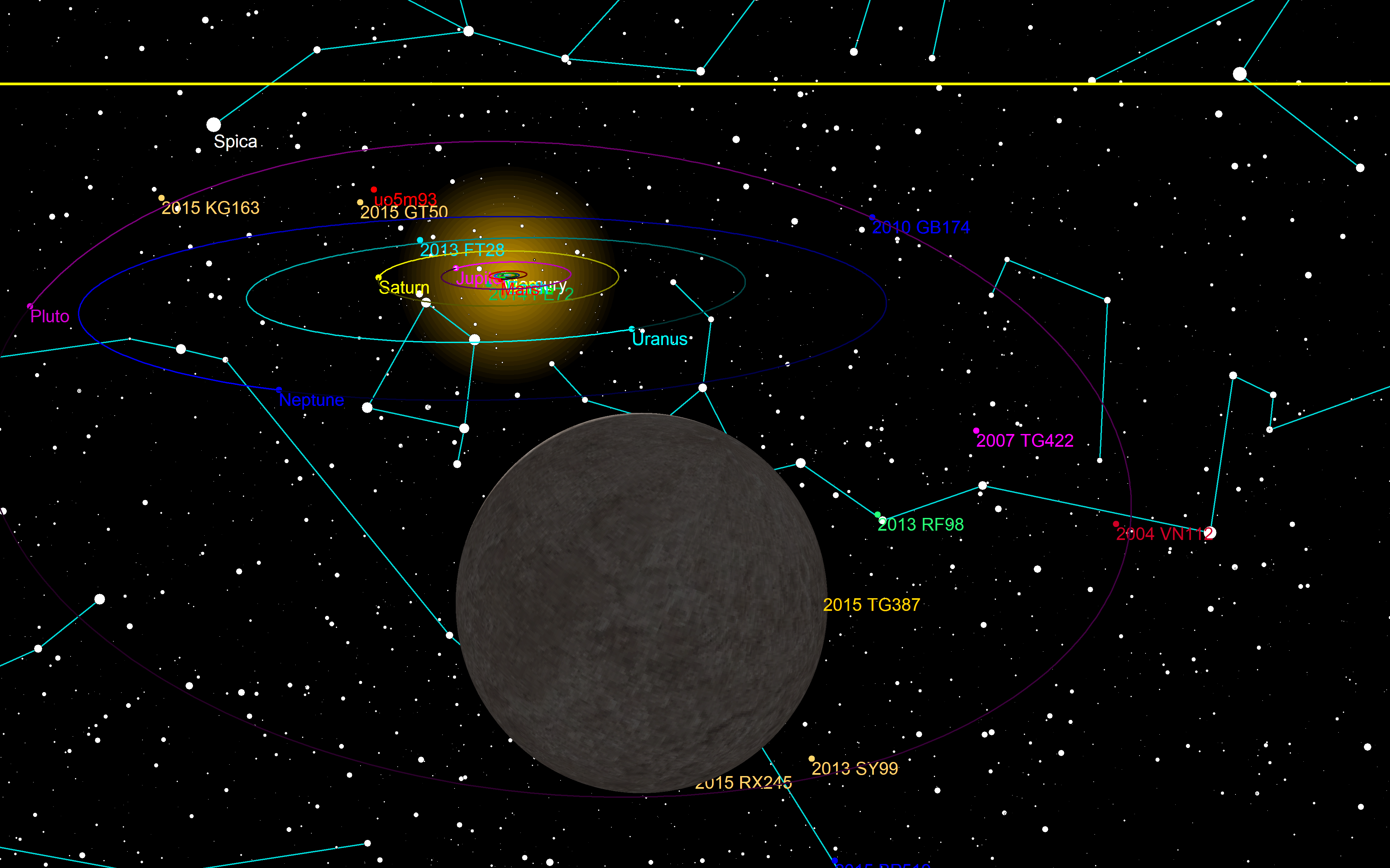 Simulated view of solar system as seen hovering over en:2015 TG387